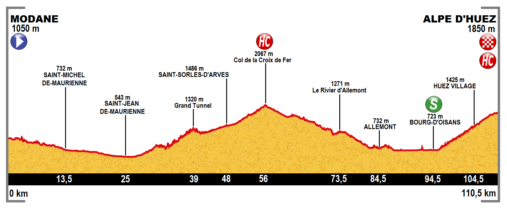 Profile of the 20th stage of the Tour de France 2015